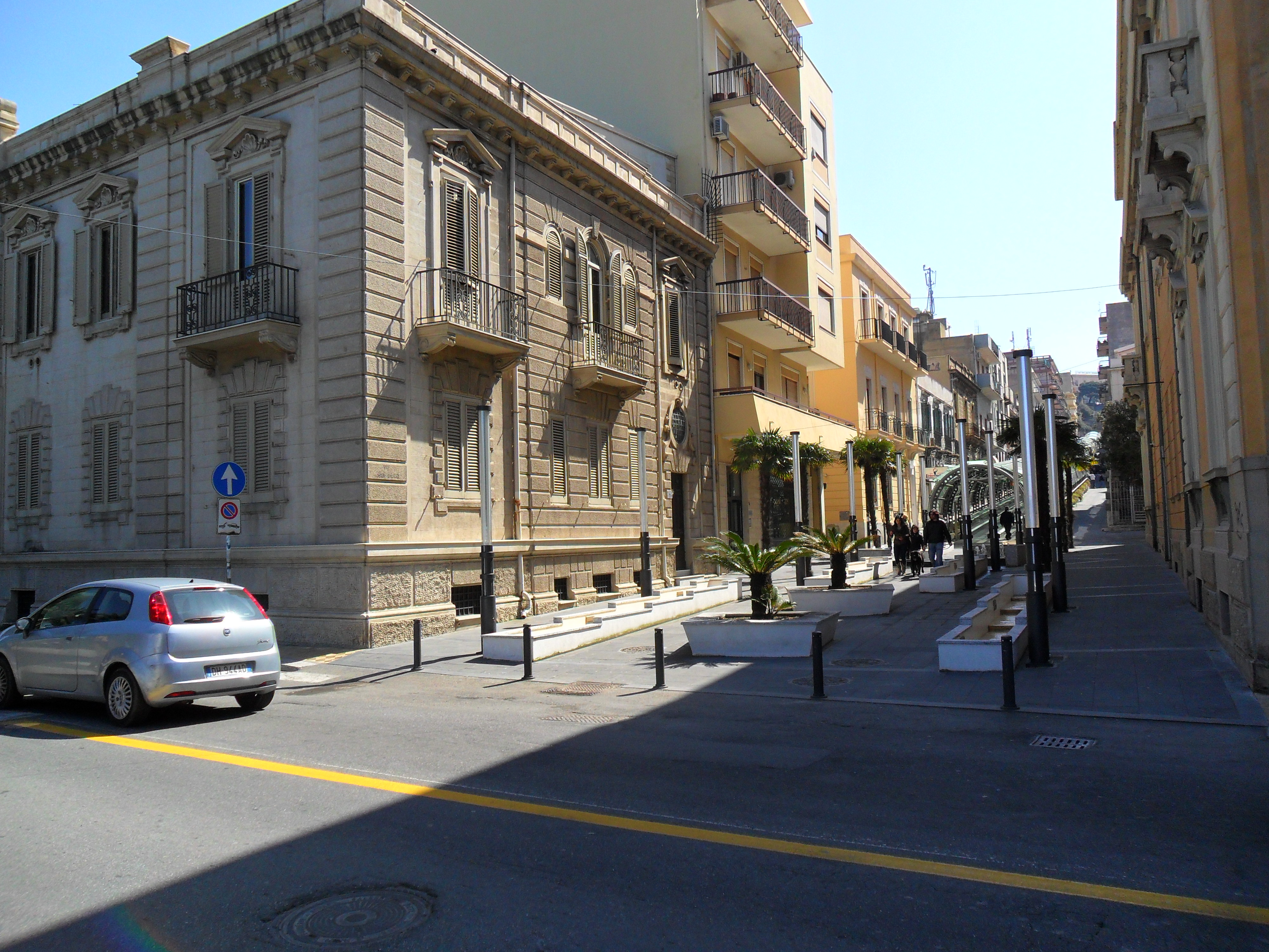 Palace Giuffrè